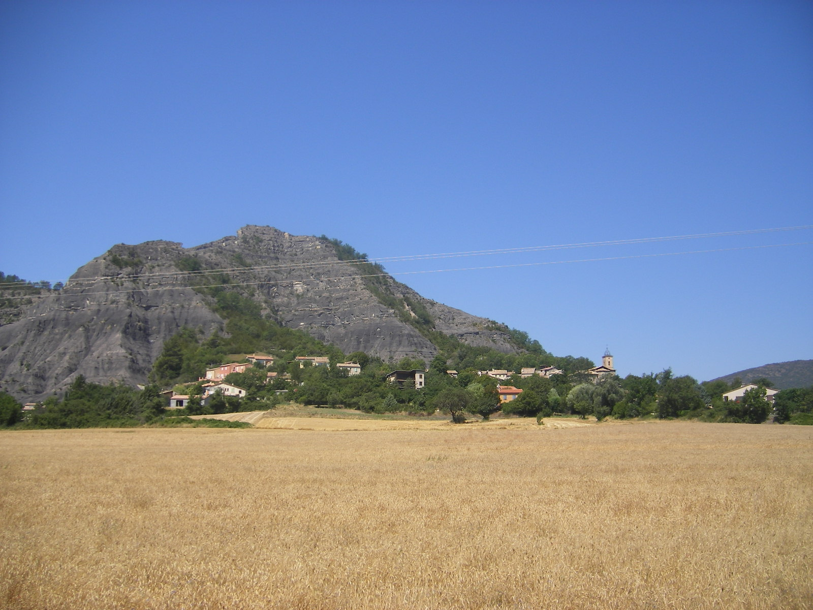 Marcoux as viewed from the D900 route